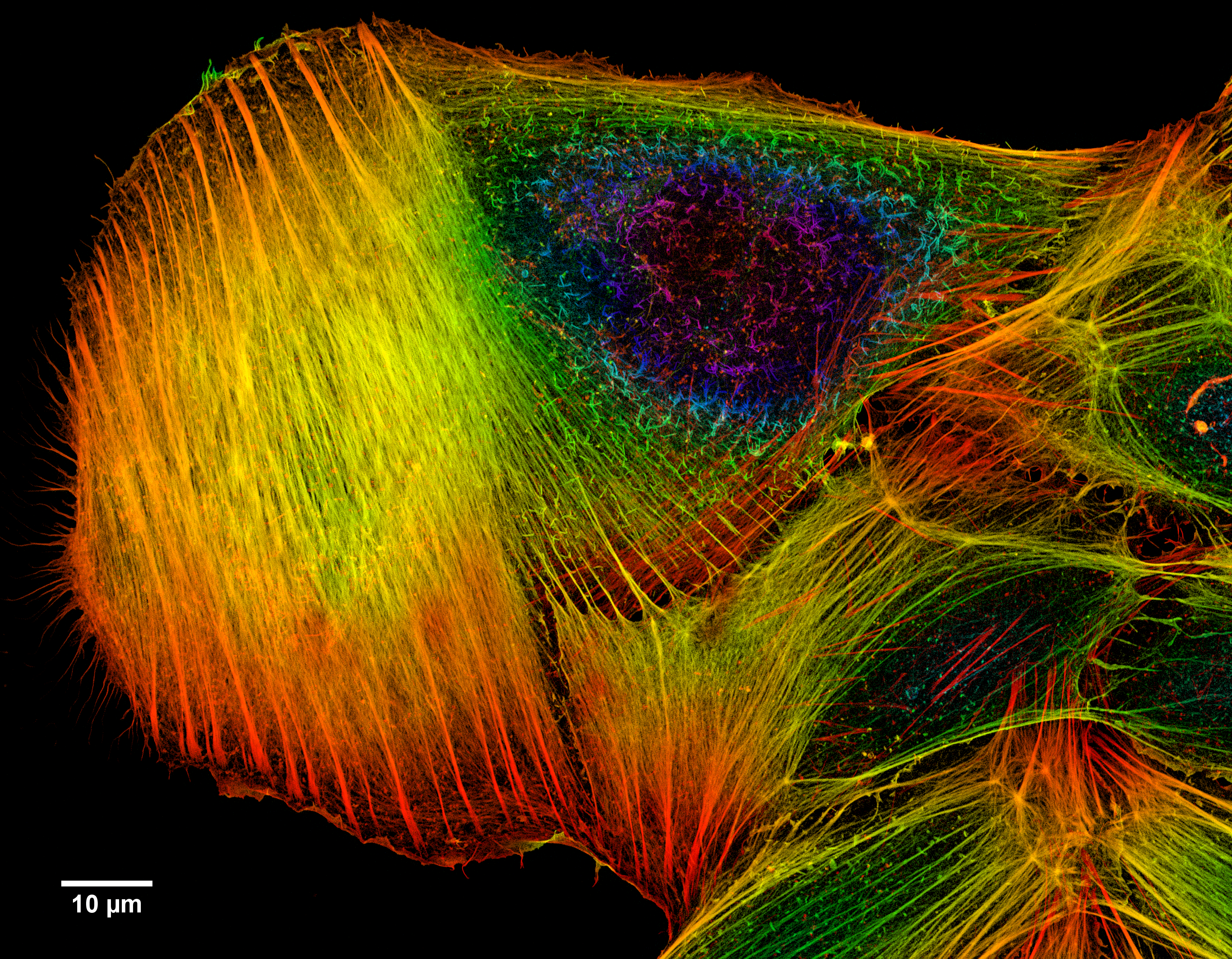 A z-projection of an osteosarcoma cell phalloidin stained to visualise actin filaments. The image was taken on a confocal microscope and the subsequent deconvolution was done using an experimentally derived point spread function. Image Parameters Microscope: Zeiss 780 Pinhole [m]: 23 µm Total Size-Width: 133.69 µm Total Size-Height: 134.91 µm Total Size-Depth: 6.48 µm Voxel-Width: 42.0 nm (pixel size) Voxel-Height: 42.0 nm (pixel size) Voxel-Depth: 80.0 nm Resolution: 23.5938 pixels per micron Zoom: 1.0 Objective: Plan-Apochromat 63x/1.40 Oil DIC Numerical aperture: 1.40